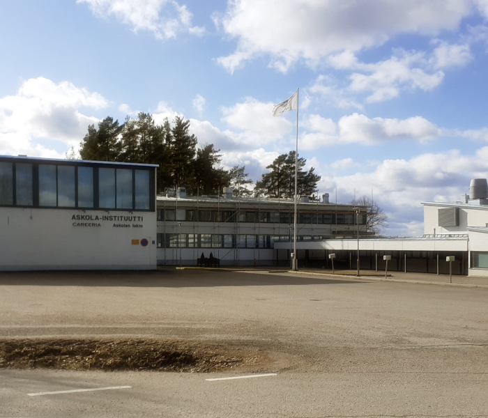 The Askola Institute